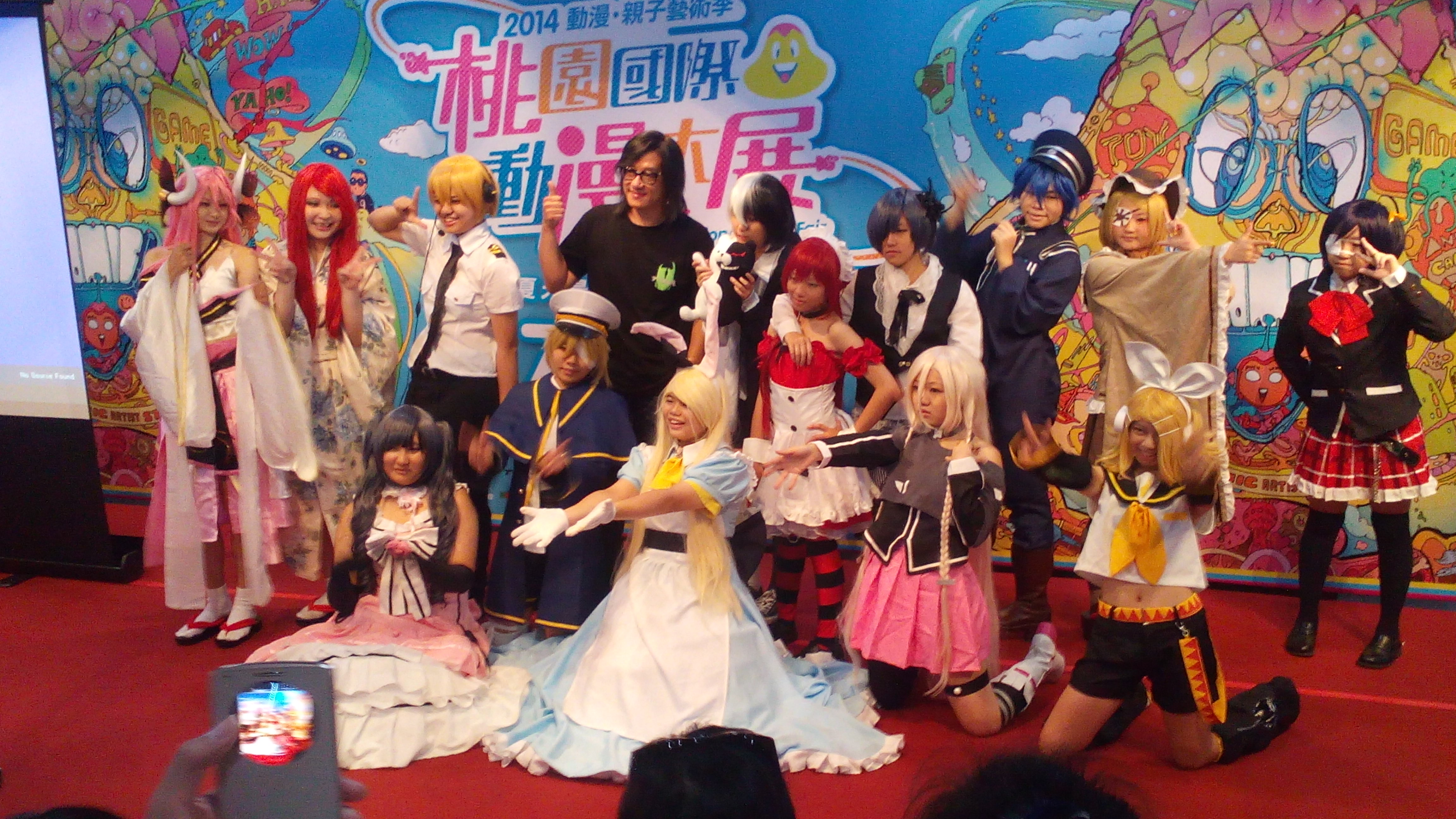 2014 Taoyuan International ACGT Fair - Michael Shih and local ACG cosplayers.